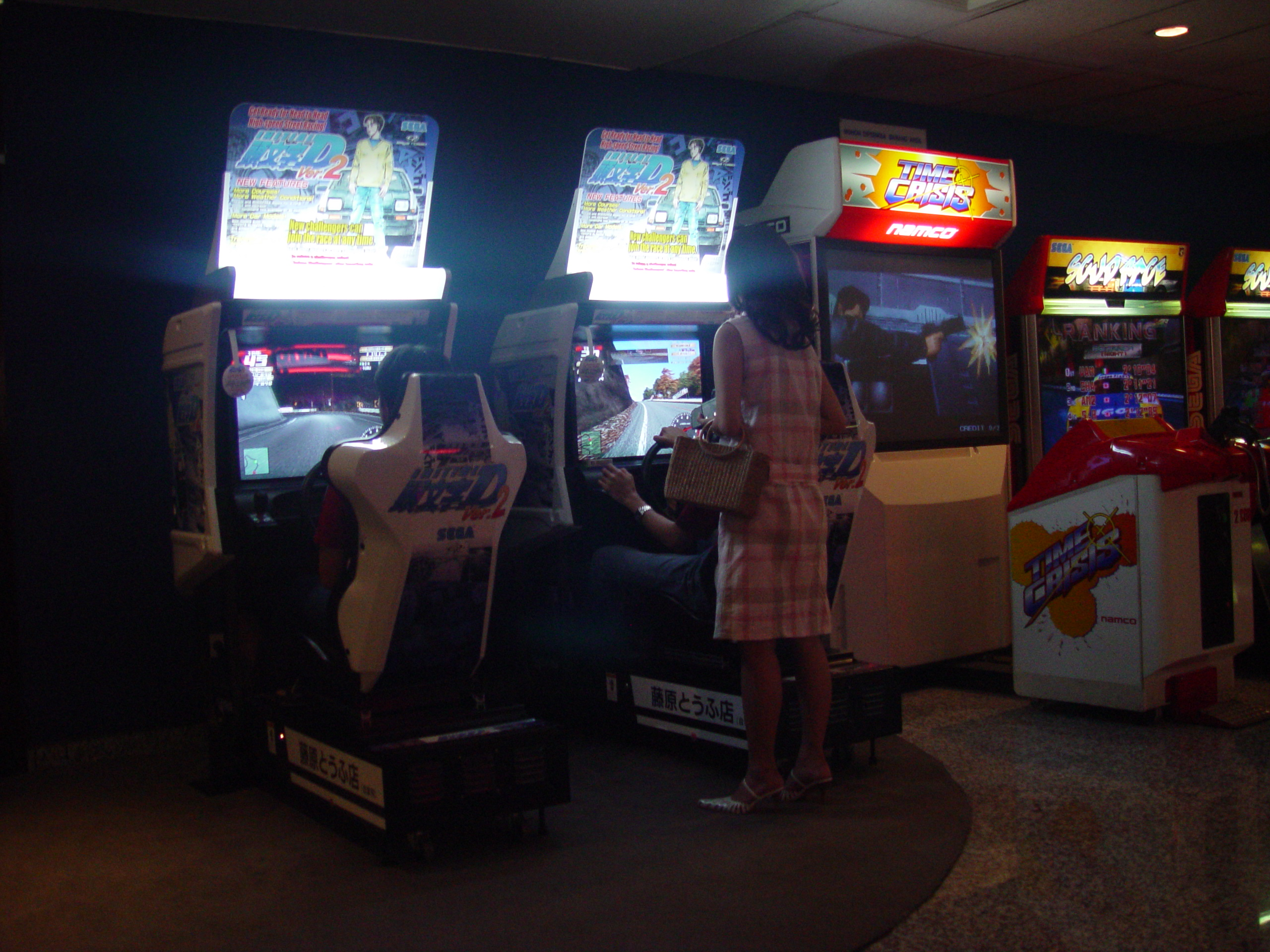 Mall cultural in Jakarta, Indonesia.